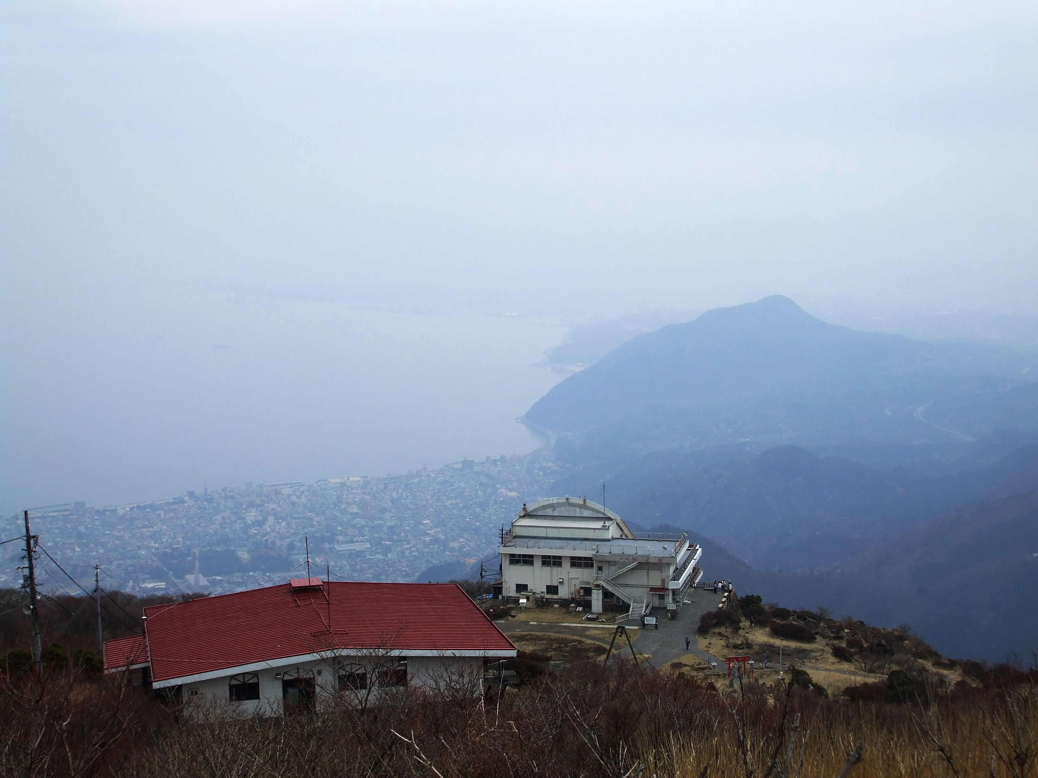 Beppu Bay, Mount Takasaki and Beppu Ropeway Tsurumi-Sanjo Station seen from the top of Mount Tsurumi, Oita Prefecture, Japan